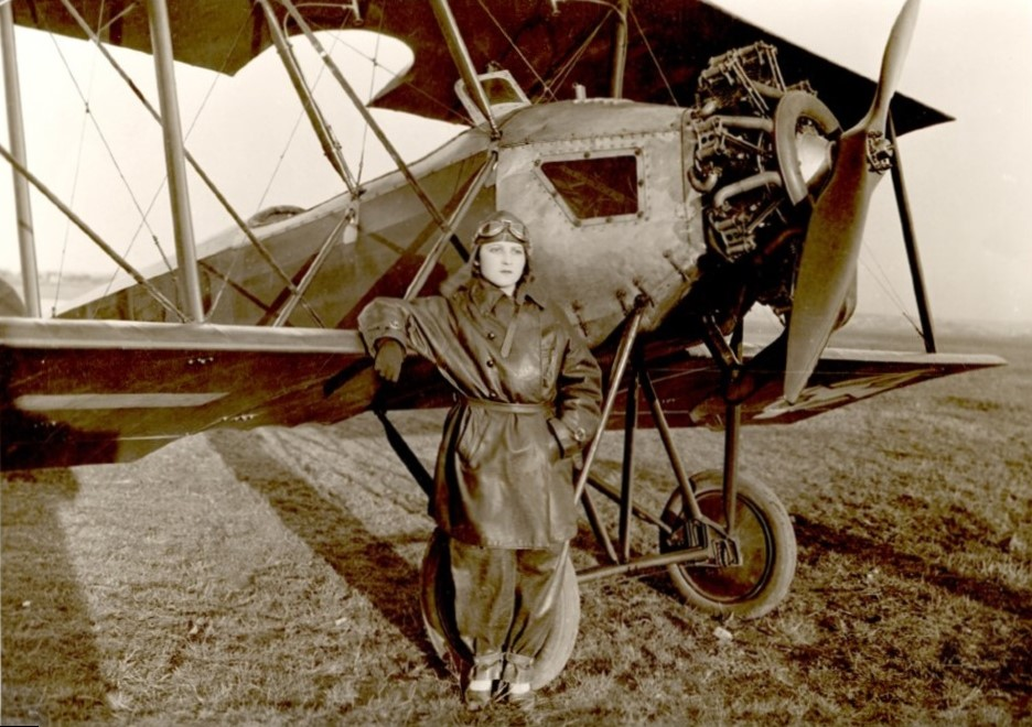 Danica Tomic, standing in front of an Arno HD-320, the first lady pilot; she flew an aircraft for the first time in 1928. Catalog number: PFG K-44